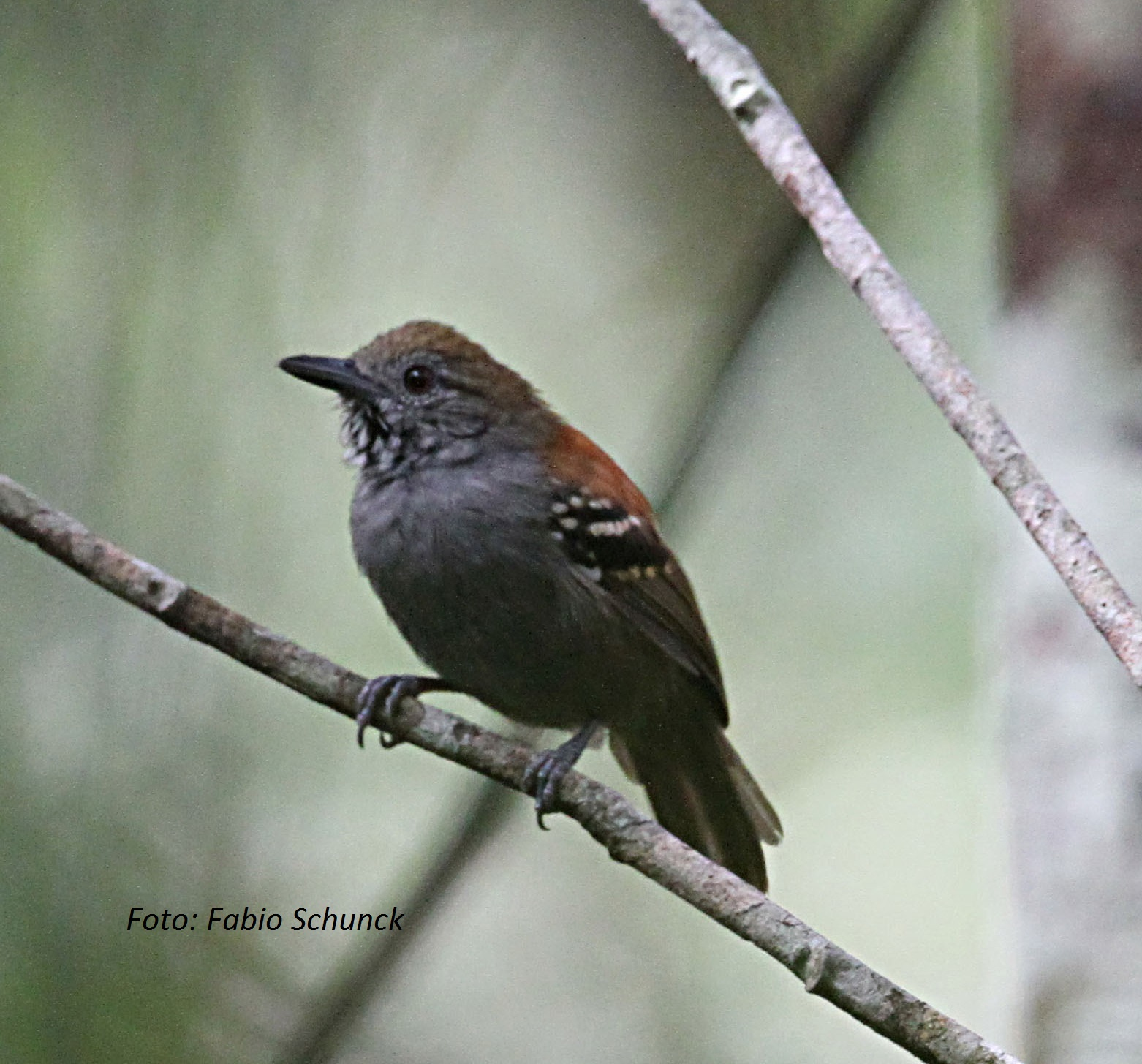 Roosevelt stipple-throated antwren at Machadinho d'Oeste - Rondonia - Brazil